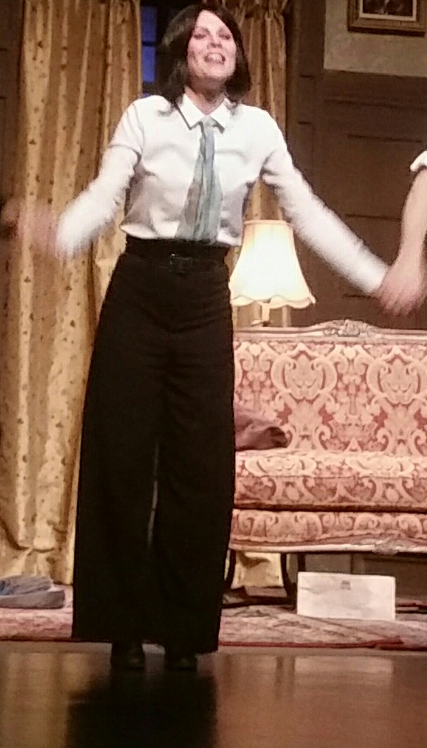 Sonia Vigneault photographed in Brossard, Québec, Canada at the L'Étoile Banque Nationale during a play La souricière d'Agatha Chrisitie.